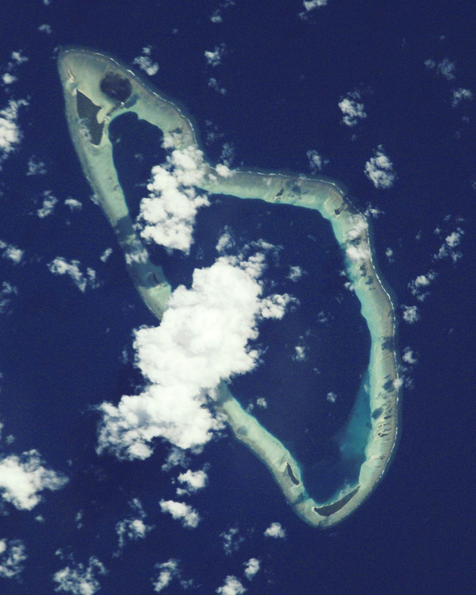 NASA astronaut image of Malum Atoll in the Pacific Ocean